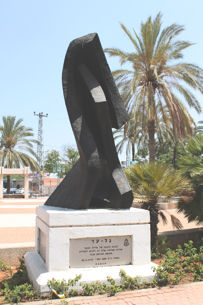 22 children lost their lives in a plane crash on their way from Tunisia to Israel through the Oslo TB epidemic to save them. The monument depicts If embracing her son to protect him